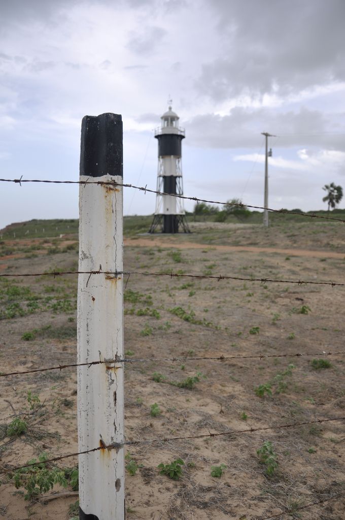 Ponta do Mel lighthouse, located 50mi east of Areia Branca, Rio Grande do Norte, Brazil.